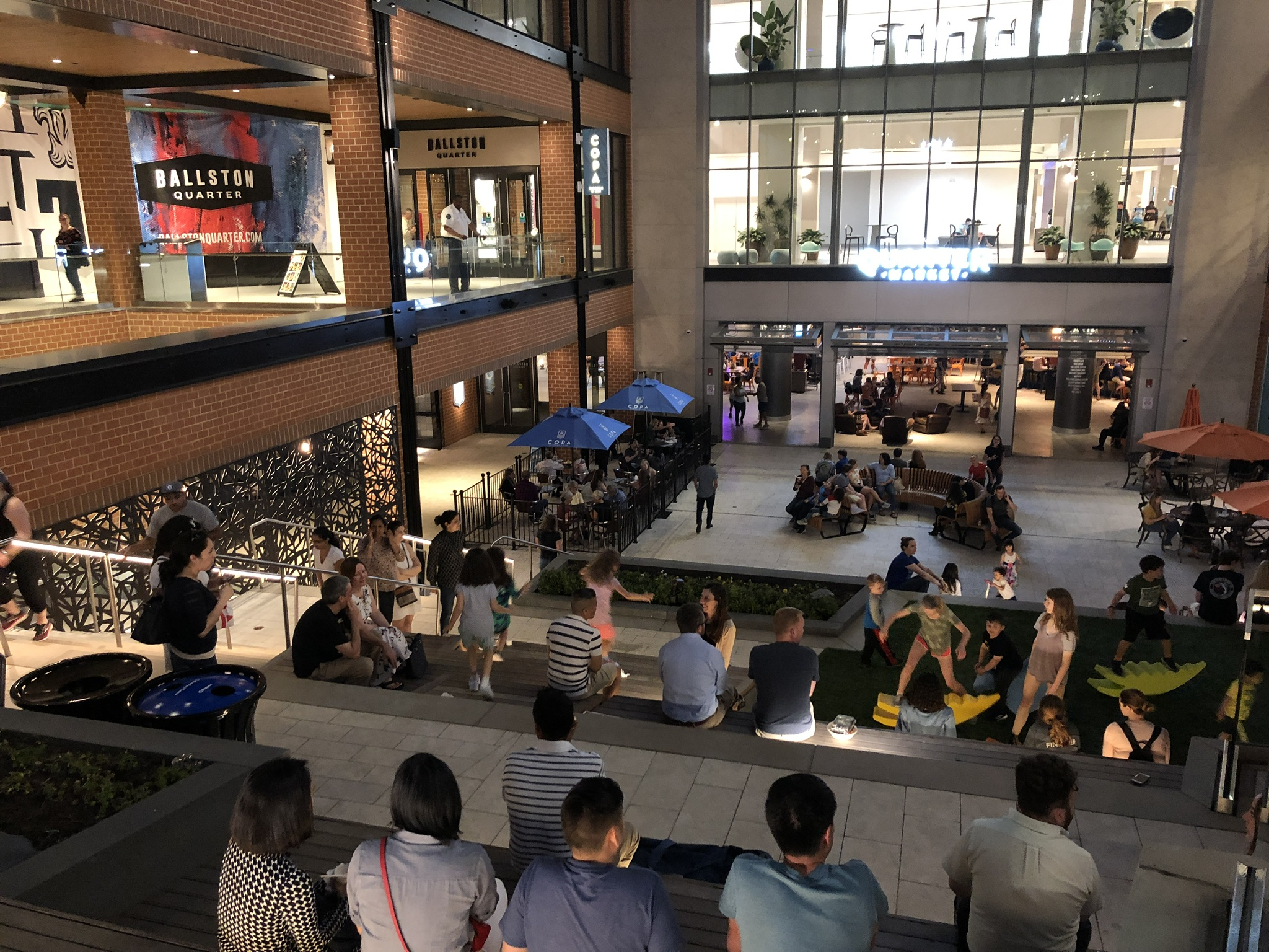 Picture of the newly developed Ballston mall